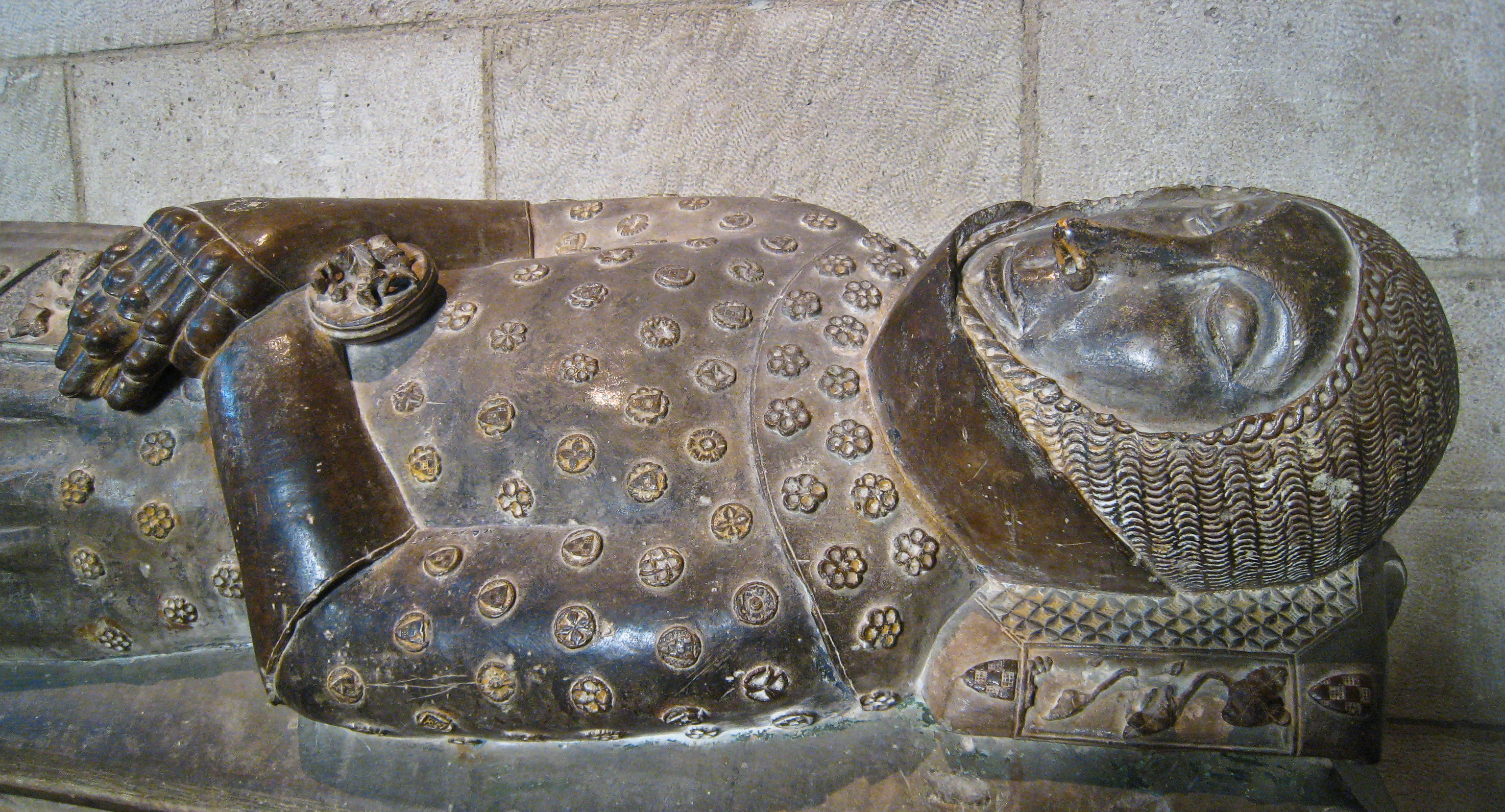 Sepulchral Monument of Àlvar II d'Àger, Count of Urgell Spain Catalunya (Cataluna), Lleida), 1300-1350 From the monastery chapel at Santa Maria de Bellpuig de les Avellanes In his will Àlvar II ordered a fine tomb to be installed in the chapel of the monastery church of Santa Maria de Bellpuig de les Avellanes. The earliest surviving description correspond with this effigy in mail and plate armor. The sarcophagus is probably an 18th century replacement made during the restoration of the church.